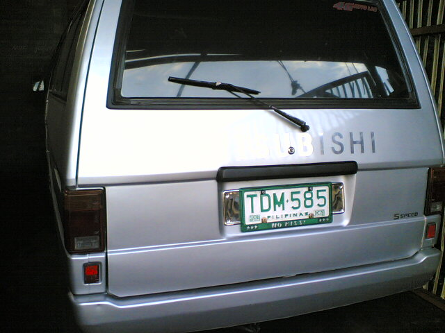 silver Mitsubishi L300 with rear window windscreen wiper and Philippine license plate TDM-585 with 2006 and 2007 license stickers